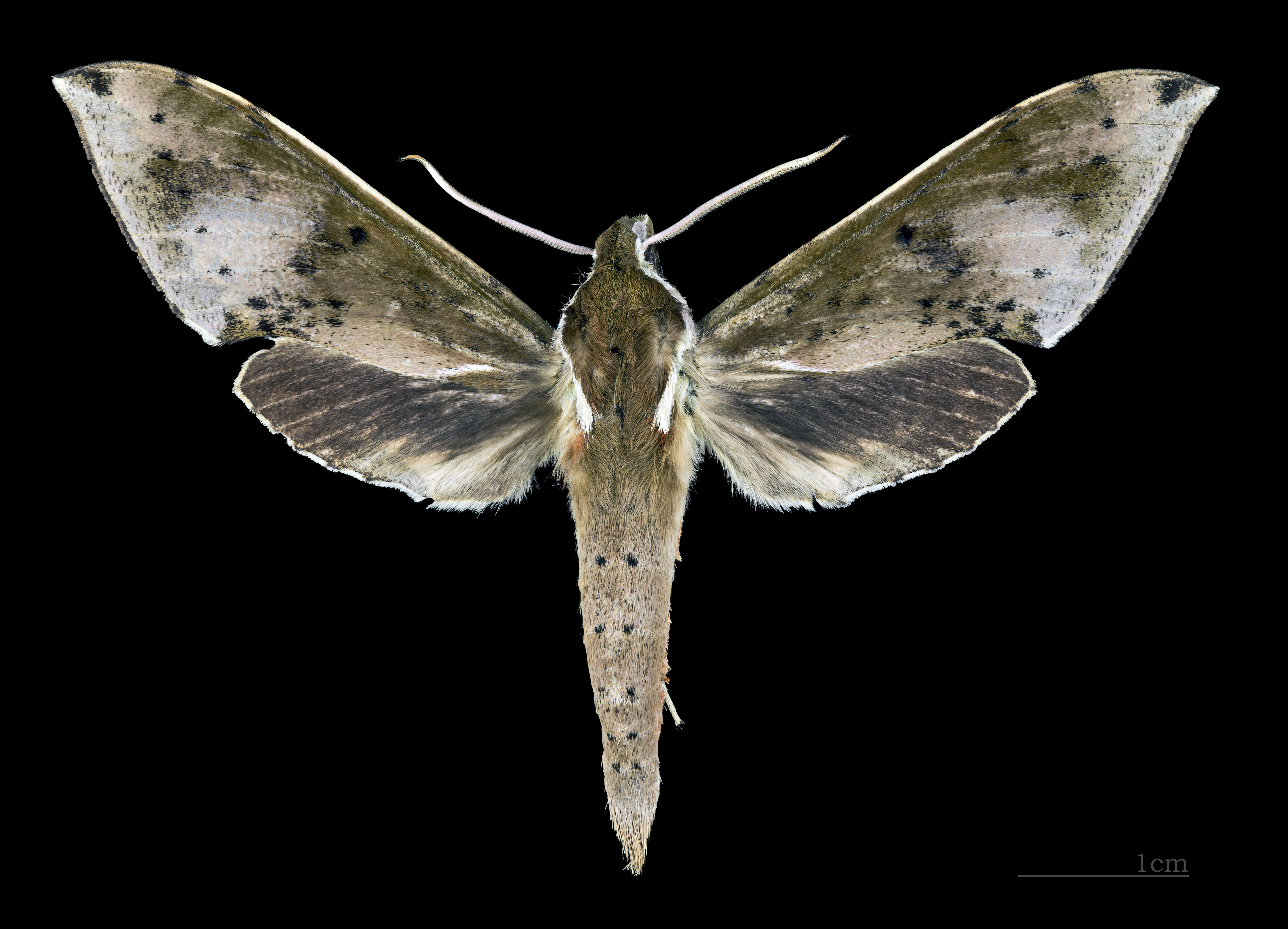 Rhagastis albomarginatus albomarginatus - Dorsal side Collection of the Mathematician Laurent Schwartz